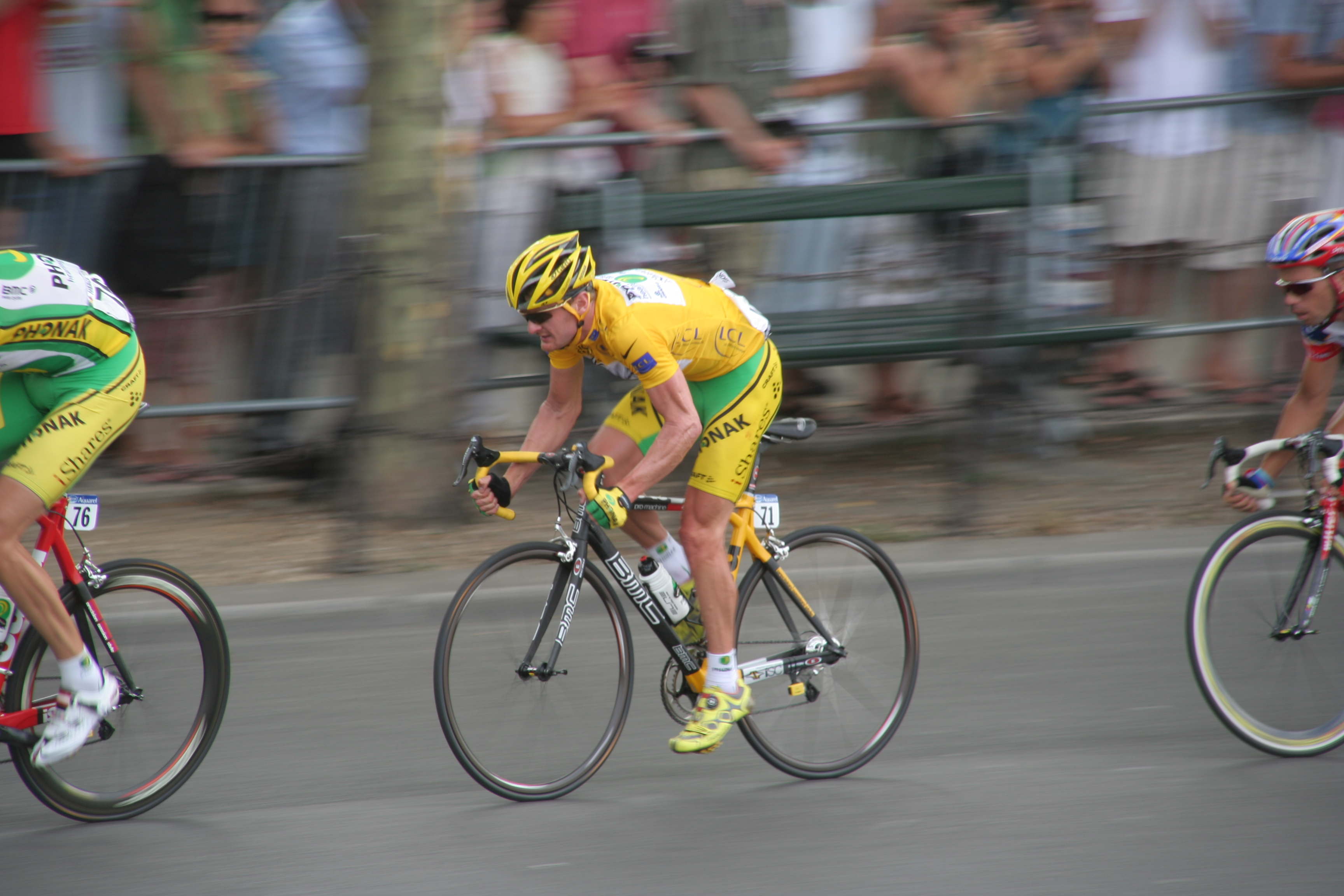 Floyd Landis during the 2006 Tour de France wearing the yellow jersey